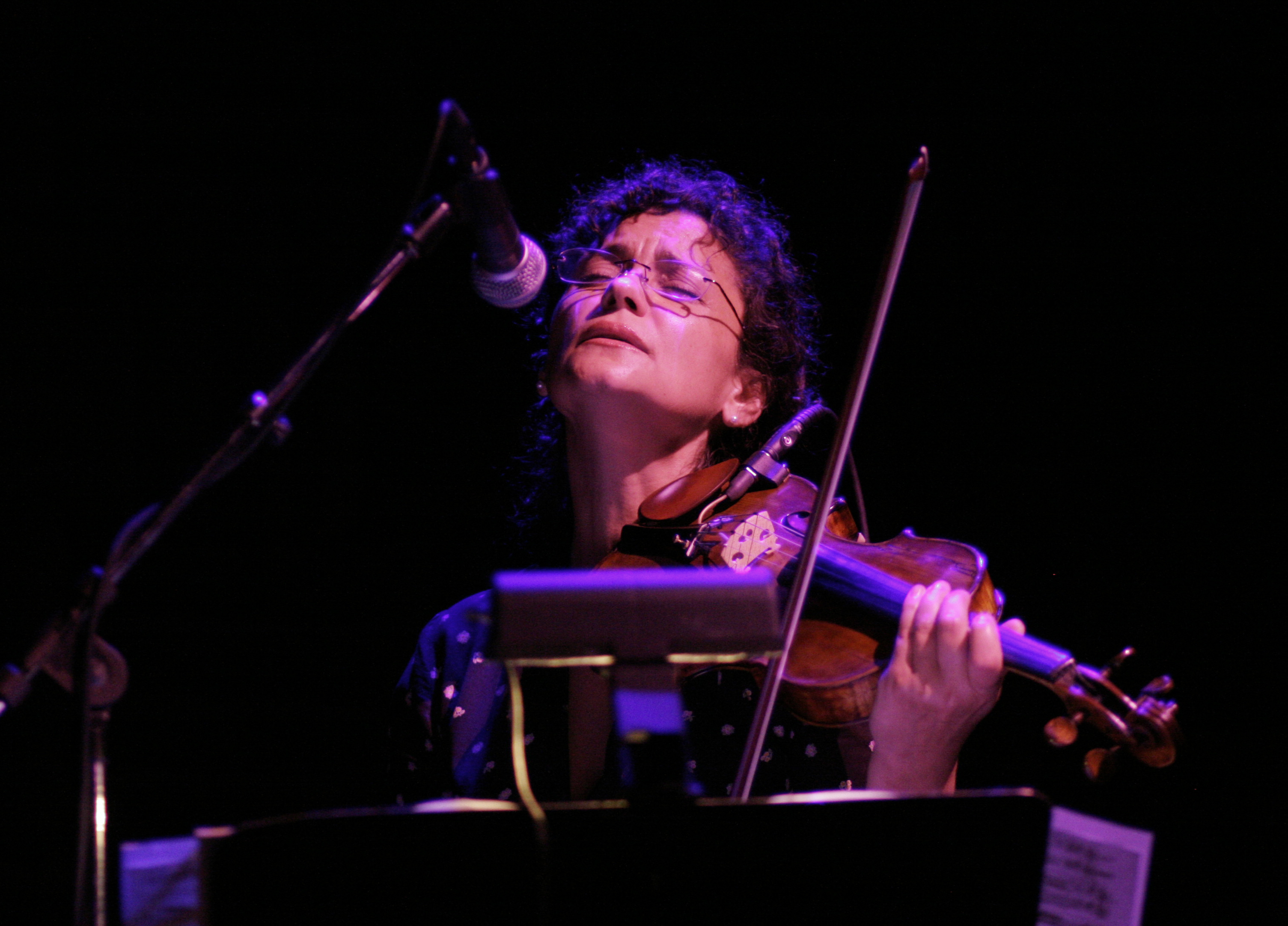 Czech violinist Iva Bittová in concert. Photo: Claire Stefani